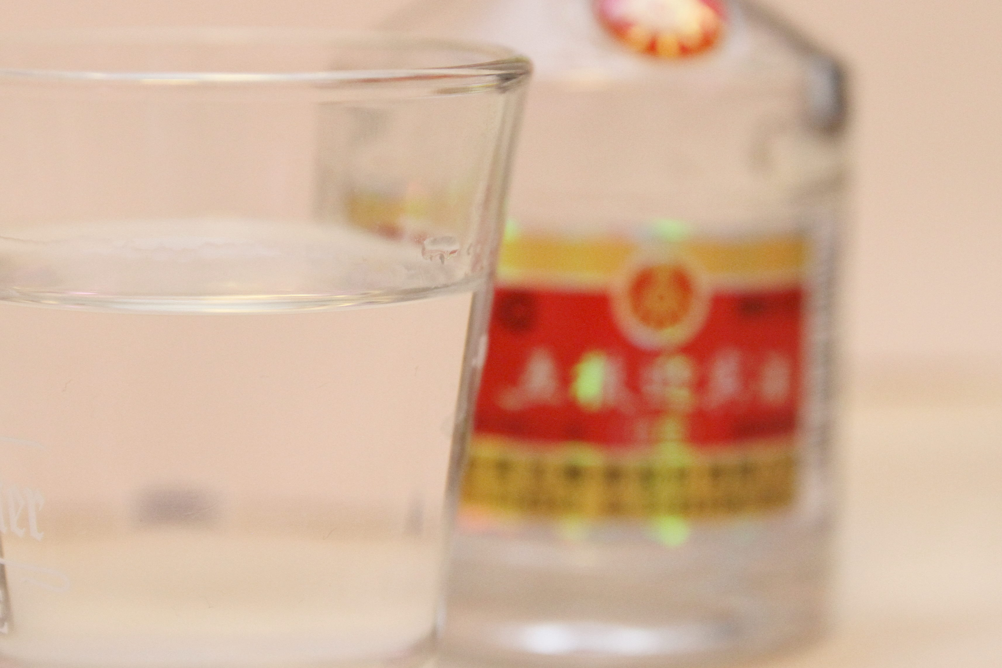 A glass of Wuliangye.